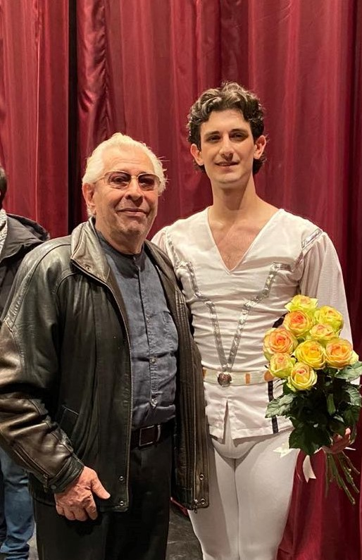 Vilen Galstyan, Raffi Galstyan, Ballet dancer